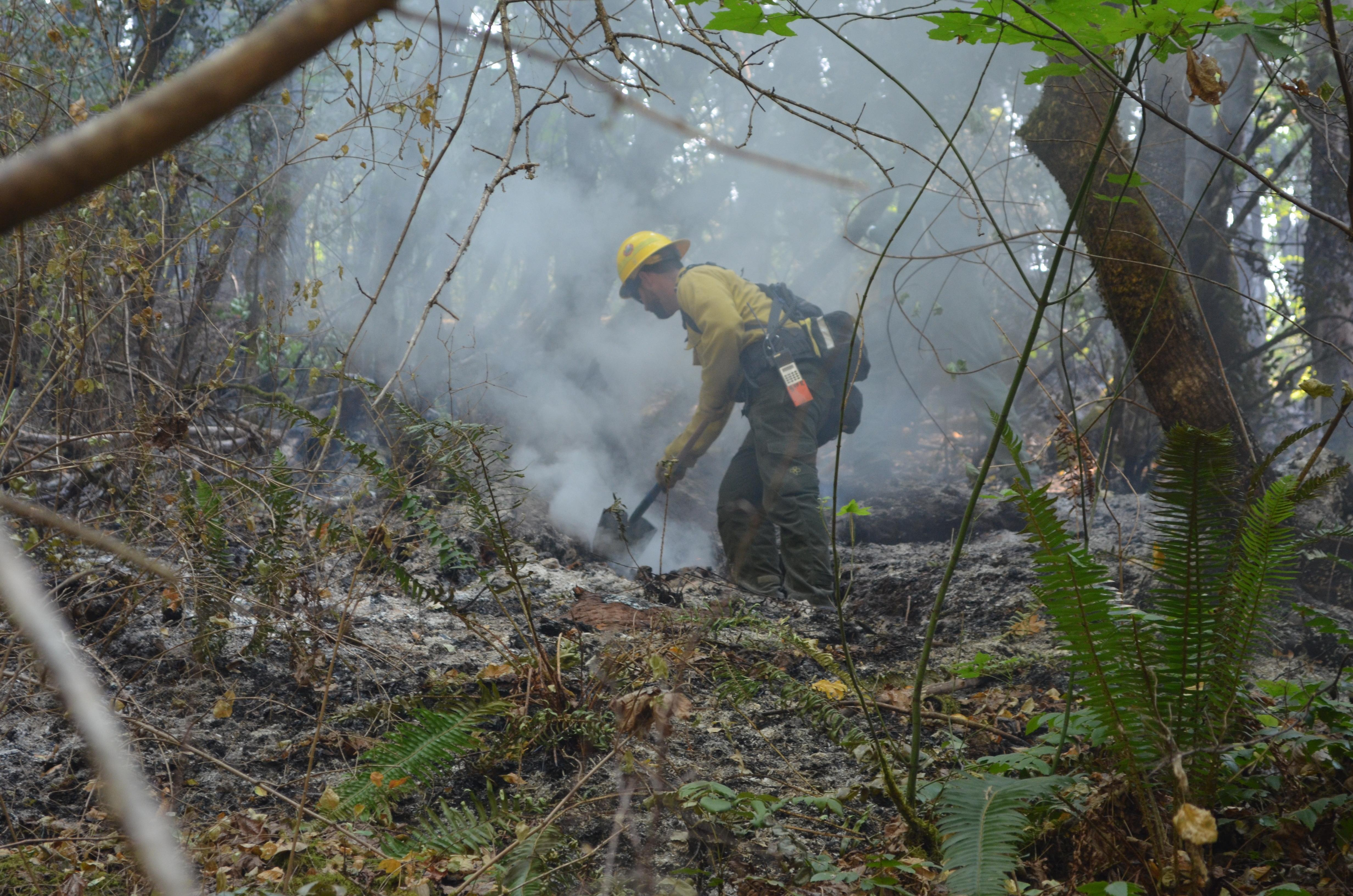 A firefighter works the fireline of the River Complex Fire.